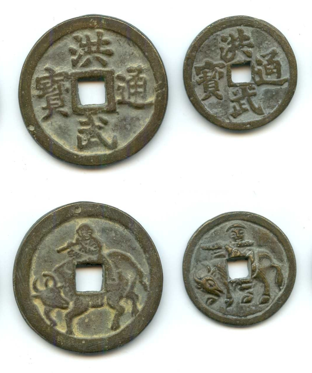 A Hongwu Tongbao Chinese numismatic charm depicting a young Zhu Yuanzhang playing the flute while riding either an Ox or a Water Buffalo 🐃.